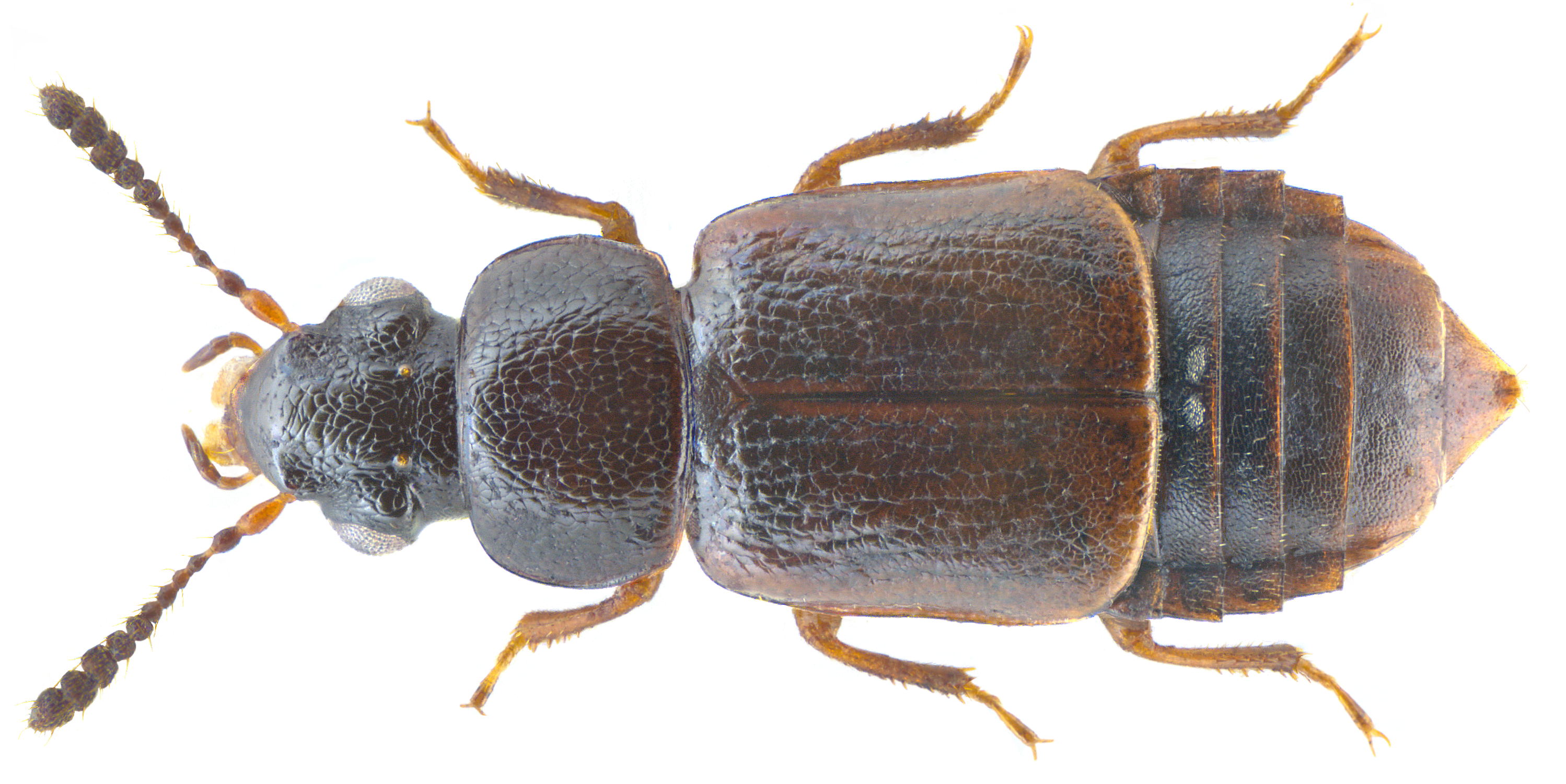 Family: Staphylinidae Size: 2,2 mm (1,8-3,0 mm) Origin: Europe, North Africa Ecology: lives mainly in faeces and fungi Location: Denmark, Lonstrup, in cow dung leg.det. U.Schmidt, 1.IX.2000 Photo: U.Schmidt, 2013